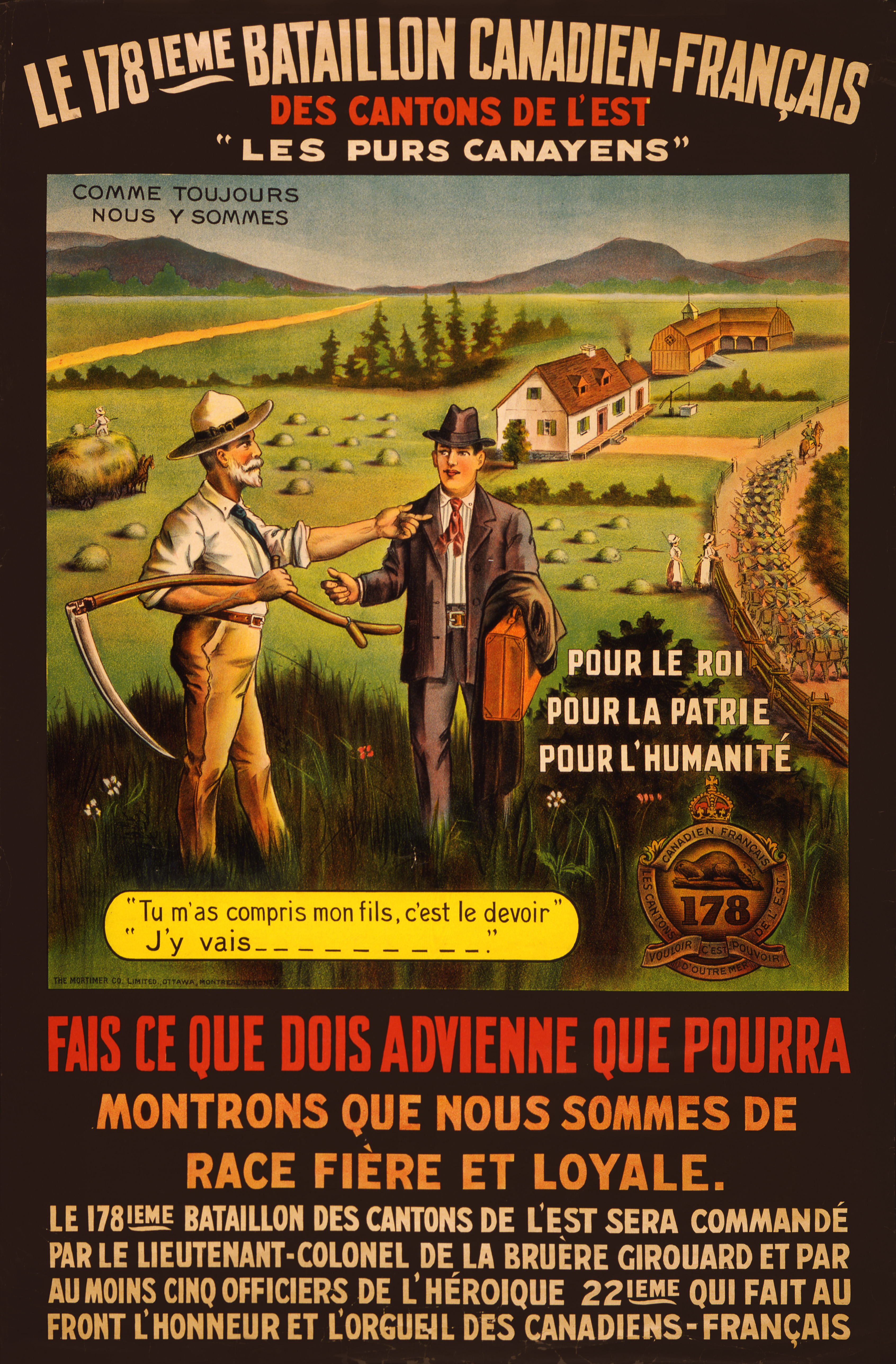 Le 178ieme Bataillon Canadien-Français des cantons de l'est, "les purs Canayens". Canadian Armed Forces recruitment poster showing a father and son in the field of their farm, as the father bids goodbye and the son goes to join troops marching by, at the onset of World War I.